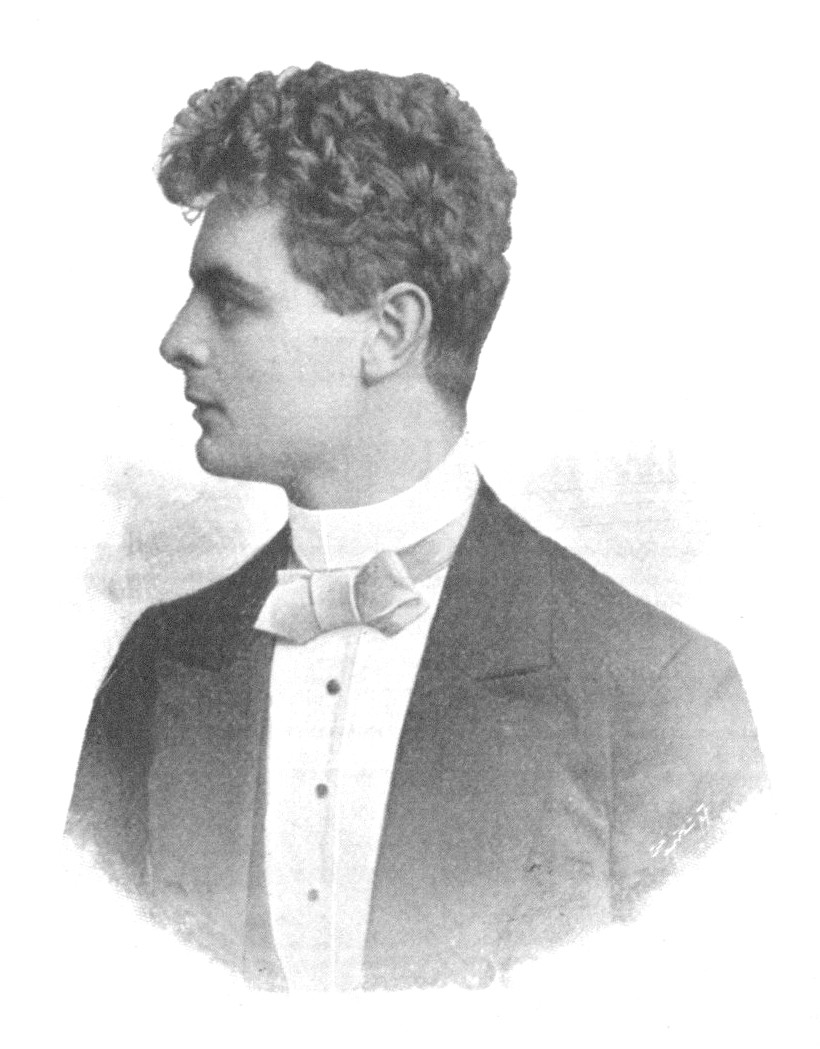 Portrait of Eugen Frank (1876-1942), Austrian actor.